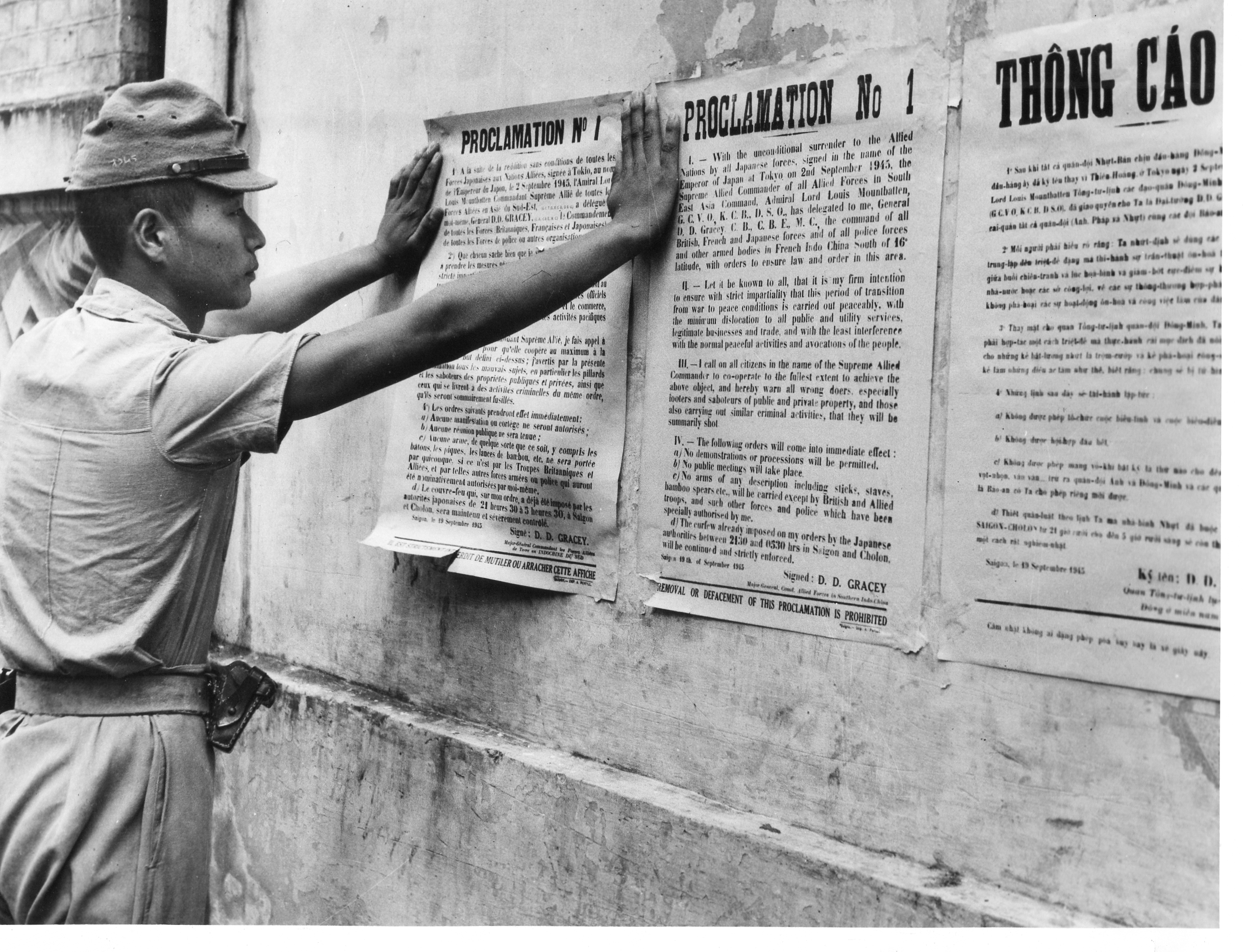 SAIGON CONTROL COMMISSION Jap soldier pastes up first proclamation issued by Major General D. D. Gracey, Commander of the Allied Control Commission. The proclamation is printed in three languages - Annamite, French and English. ARJ/1184 INTERSERVICES PUBLIC RELATIONS DIRECTORATE, INDIA.